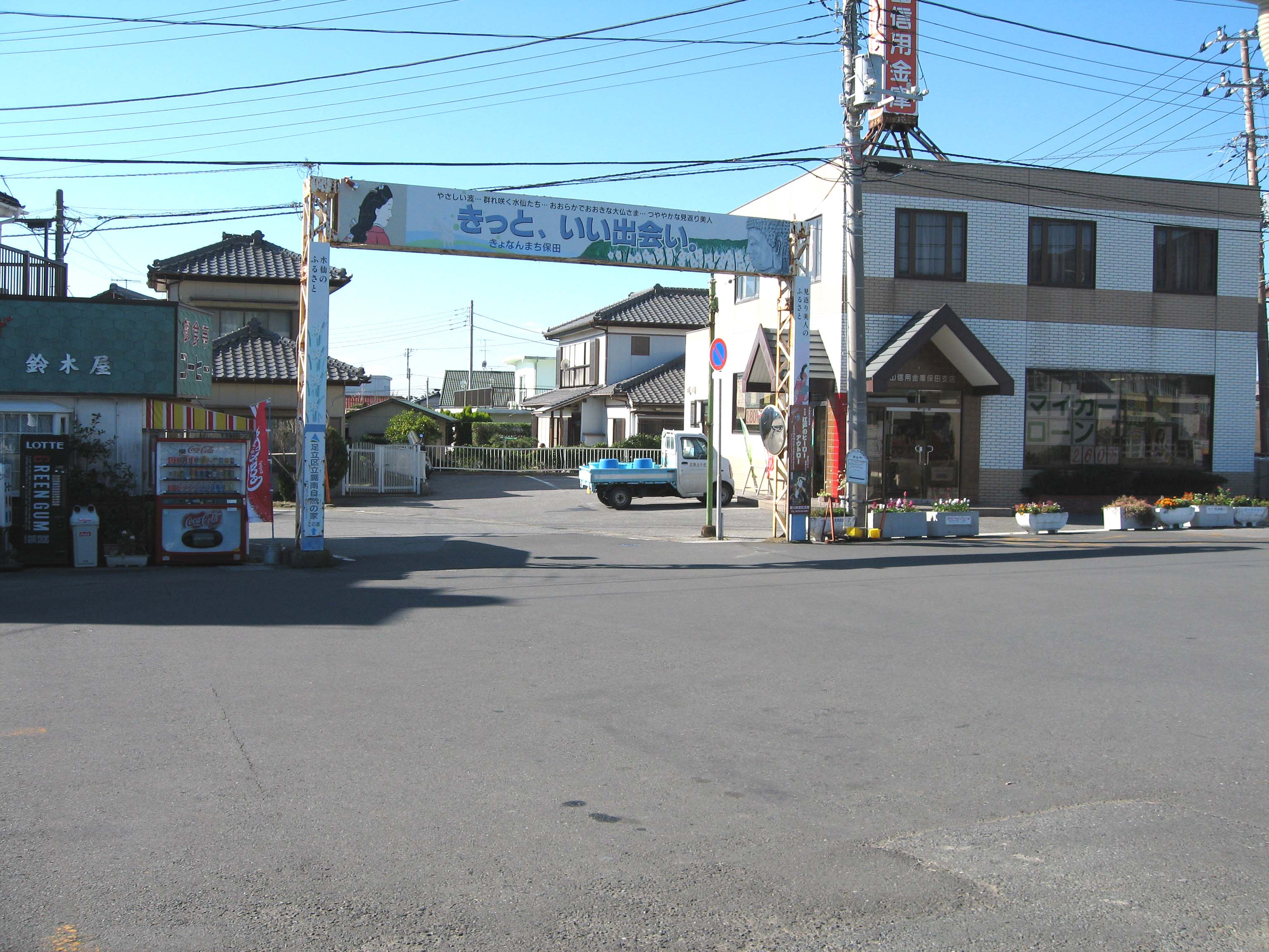 Hota station, Uchibo Line, Chiba, Japan